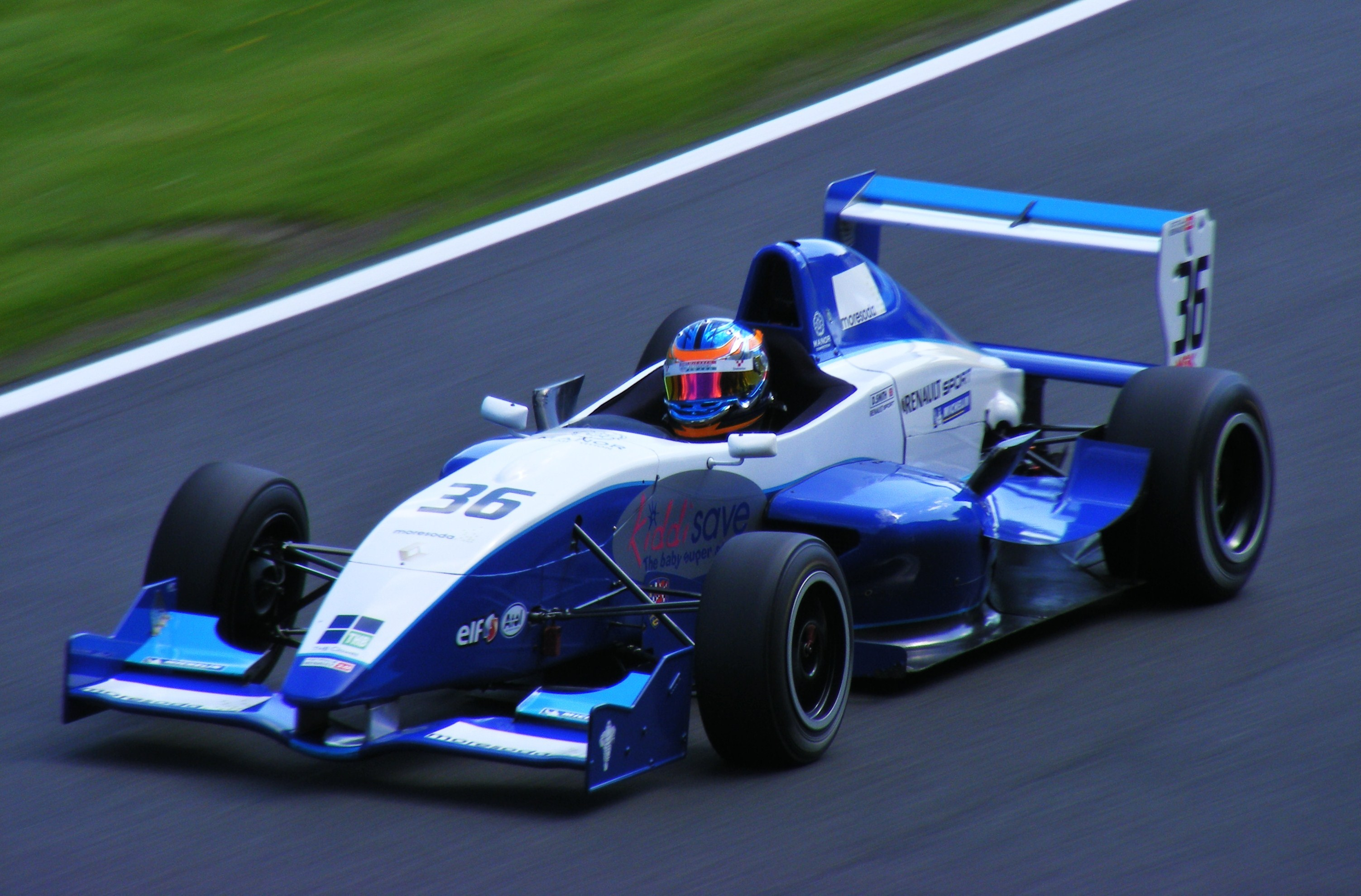 Dean Smith runs up Oulton Park's Clay Hill during a qualifying session.